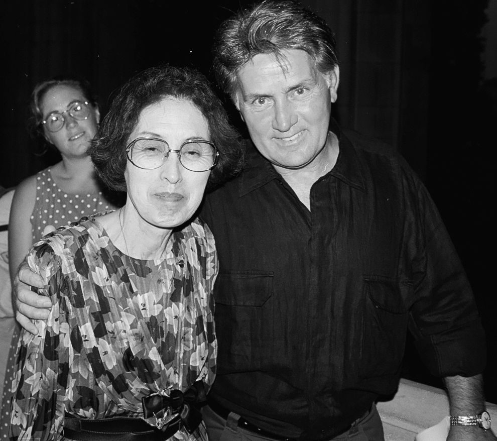 40th annive of Hiroshima bombing... August 6, 1995 National Catherdral Wash. D.C.